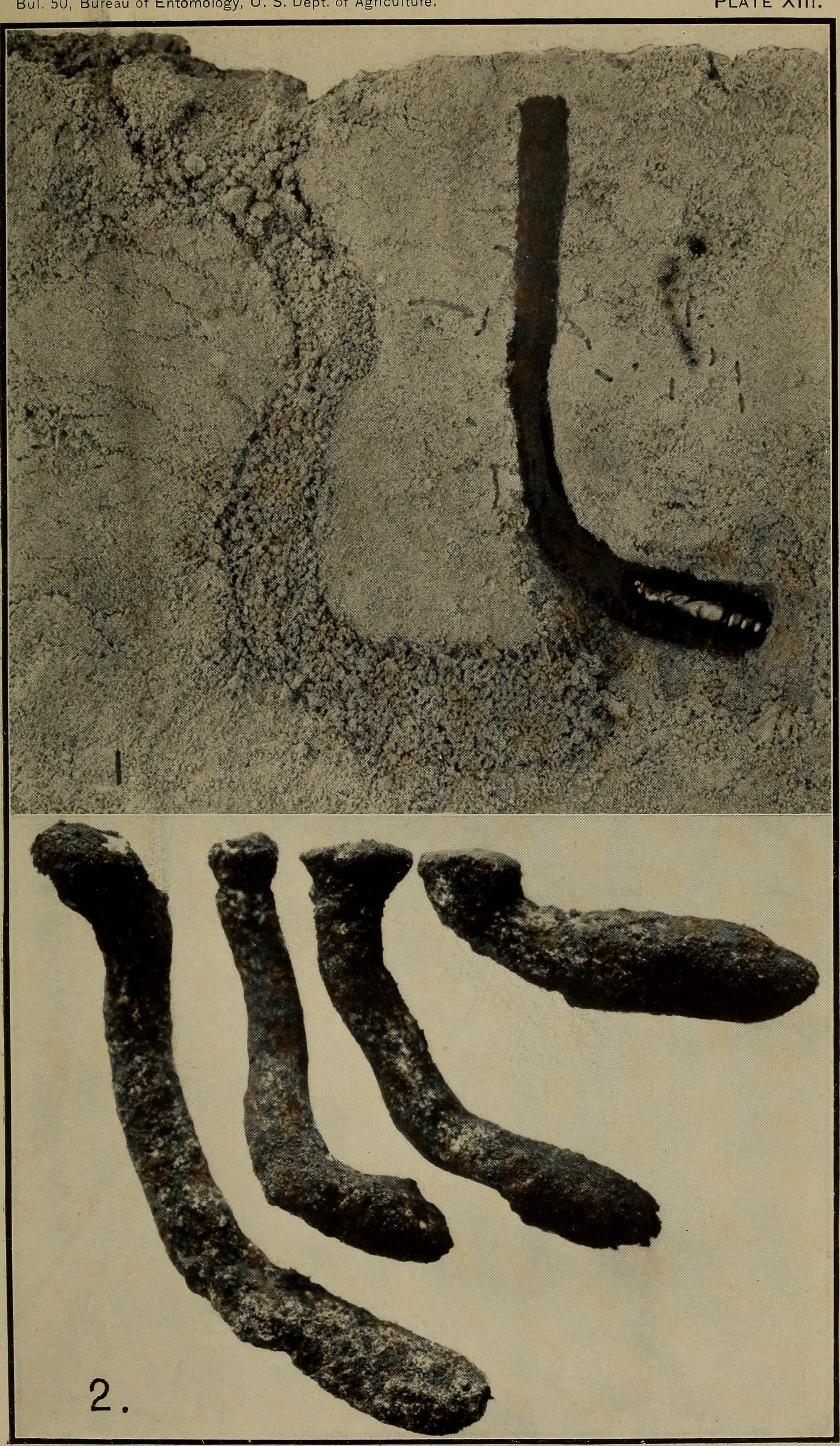 Title: Bulletin Year: 1904 (1900s) Authors: United States. Bureau of Entomology Subjects: Insects; Insect pests; Entomology; Insects; Insect pests; Entomology Publisher: Washington : G. P. O. Text Appearing Before Image: Bui. 50, Bureau of Entomology, U. S. Dept. of Agncultu Plate XIII. Text Appearing After Image: Pupal Cells of the Bollworm. Fig. 1, Pupa of the bollworm in its burrow in the soil, somewhat enlarged; fig. 2, plaster of Paris casts of pupal cells, showing variation in depth and direction, natural size (original).